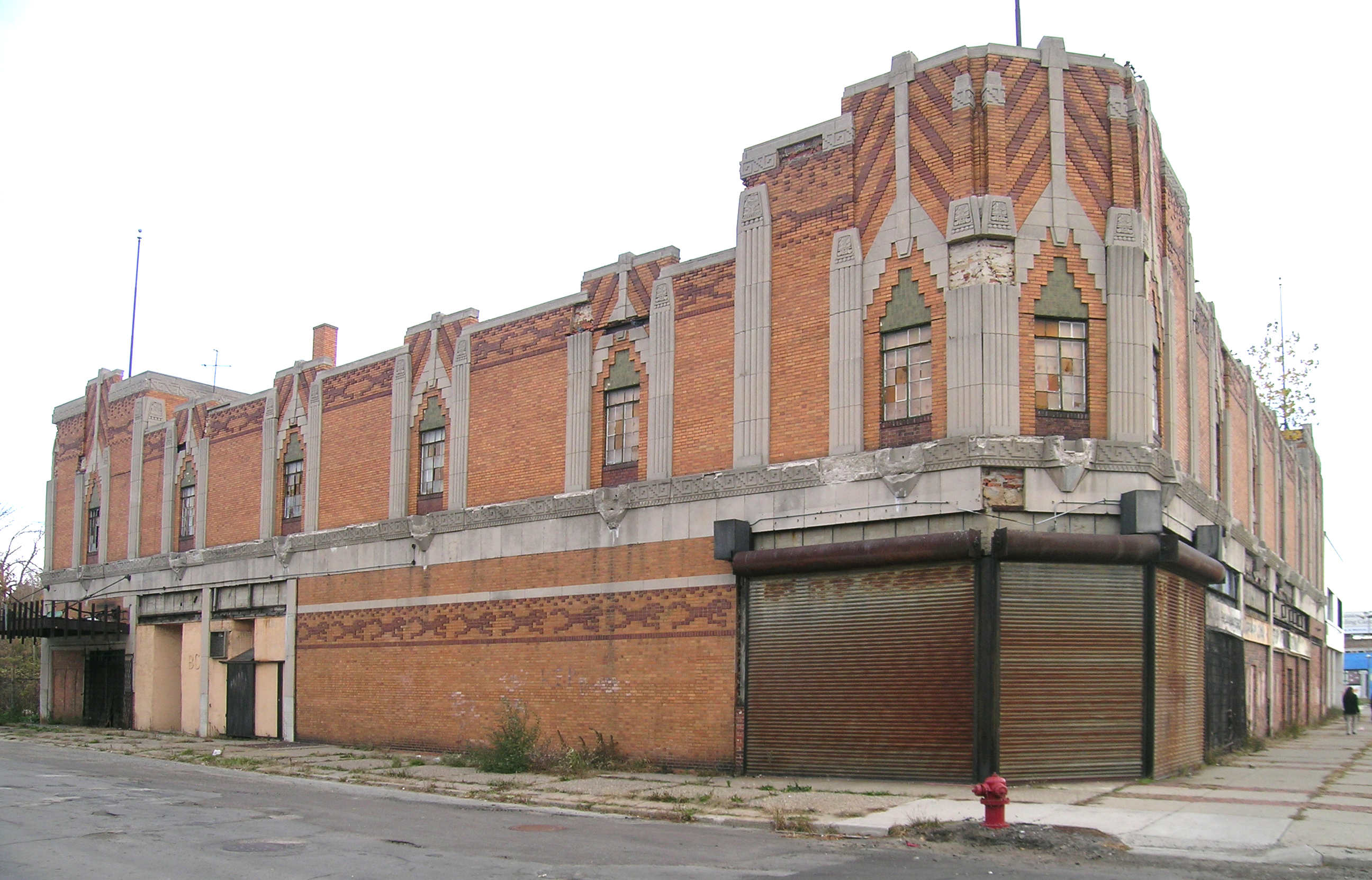 Vanity Ballroom Detroit MI